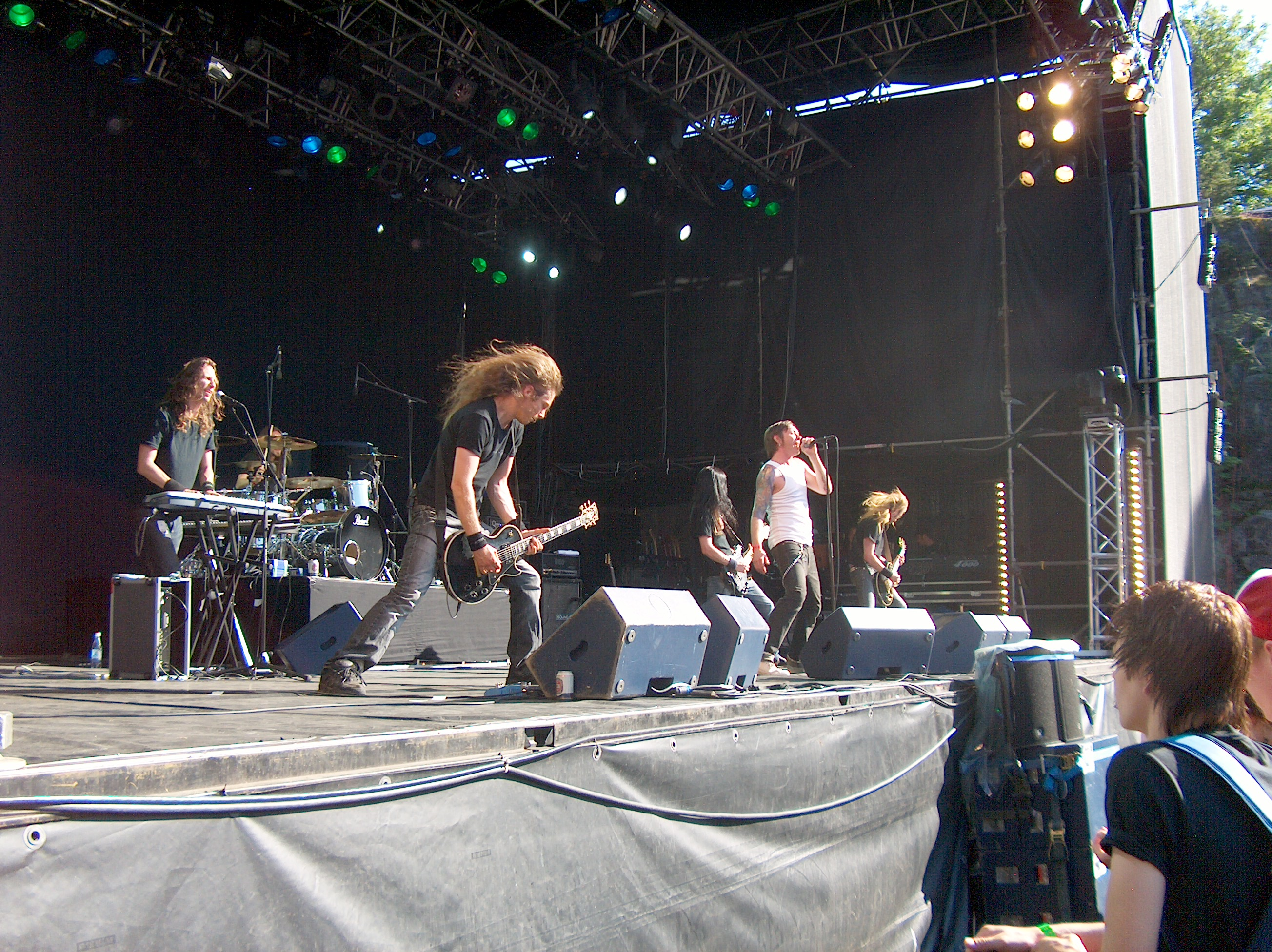 Audrey Horne live at Quart Festival 05 in Kristiansand